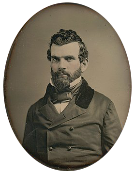 James King of William, (1822-1856), half-length portrait, with a beard and mustache, wearing a standing collar, and double breasted jacket. UC Berkeley, Bancroft Library via The Online Archive of California.